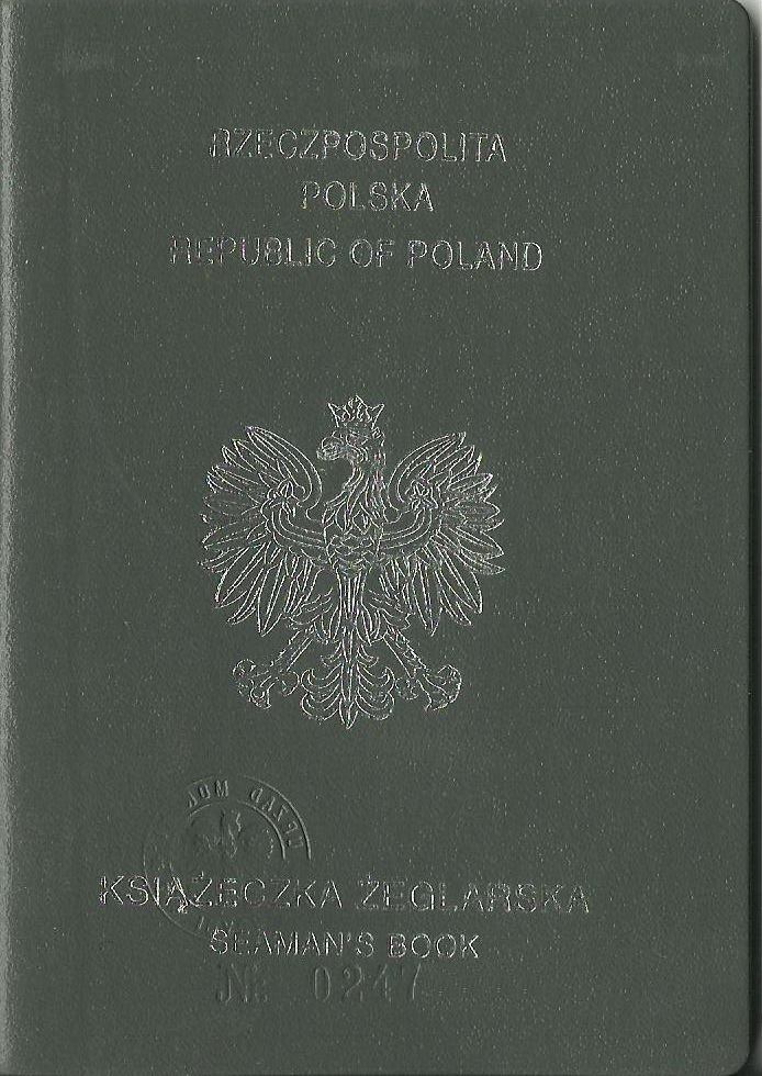 cover of Polish Seaman's book